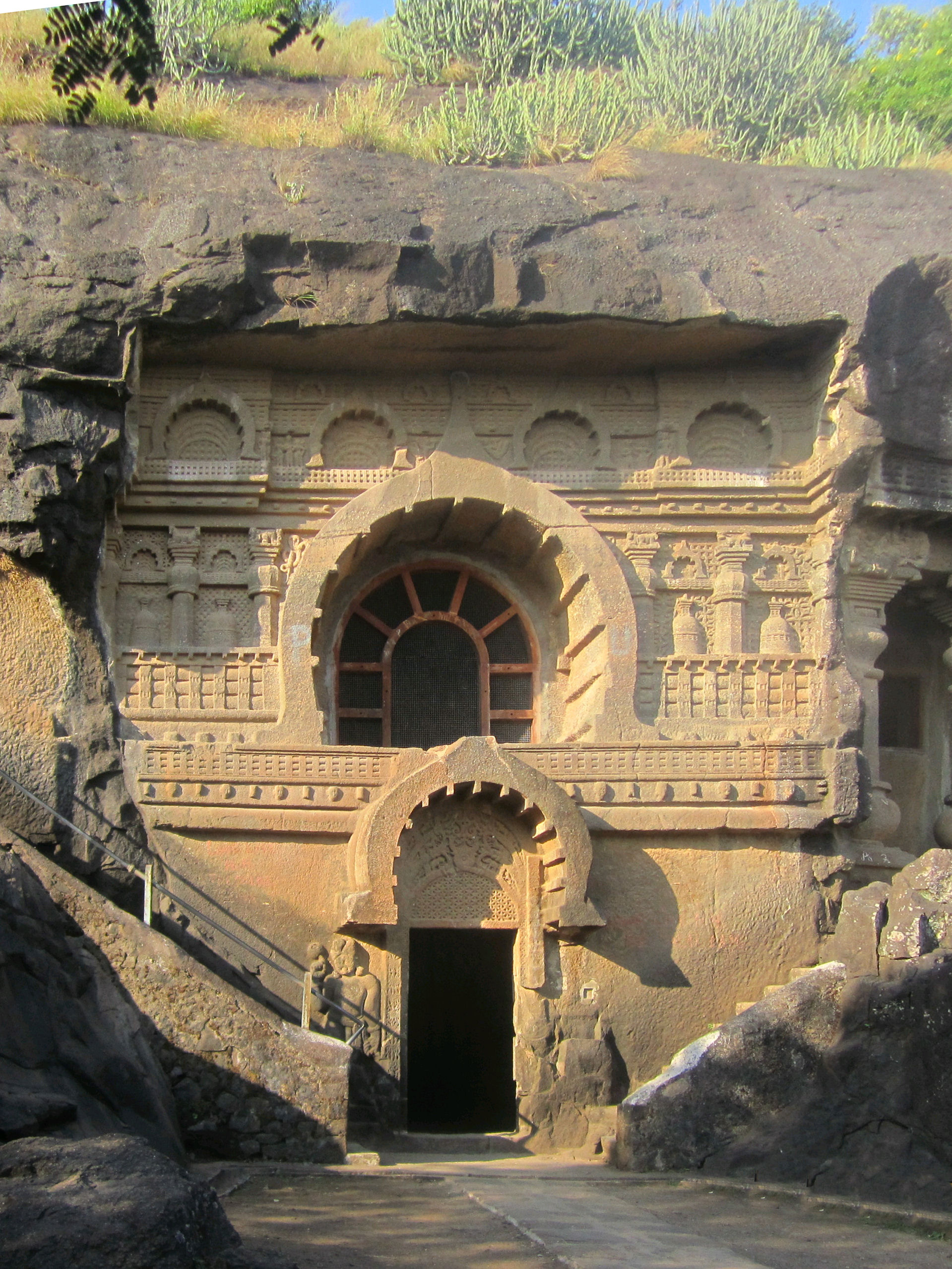 Nasik Cave 18